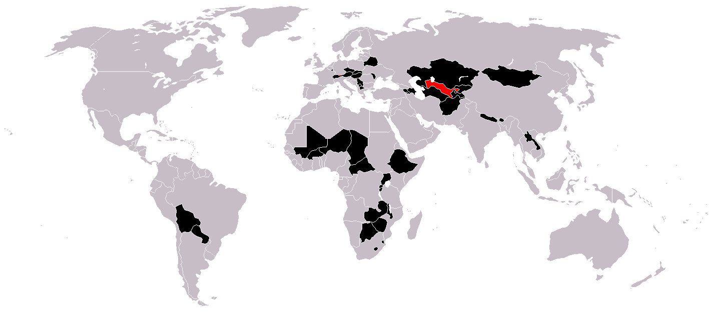 Landlocked countries (black) and doubly landlocked countries (red) in the world as of 2008. Based on Image:Landlocked countries.png, Kosovo added, Uzbekistan and Liechtenstein coloured red.